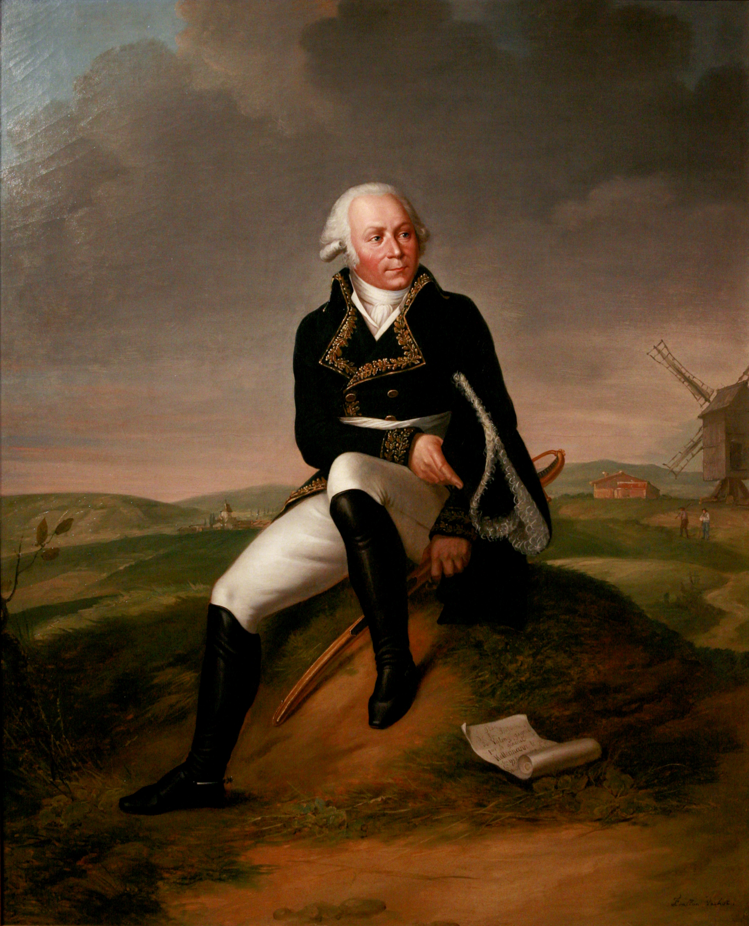 General François Christophe Kellermann, by Lucile Foullon-Vachot (1775-1865) after a painting by Maritnet engraved by Charon. Oil on canvas. On display at Strasbourg Historical museum, accession number MBA 1770.